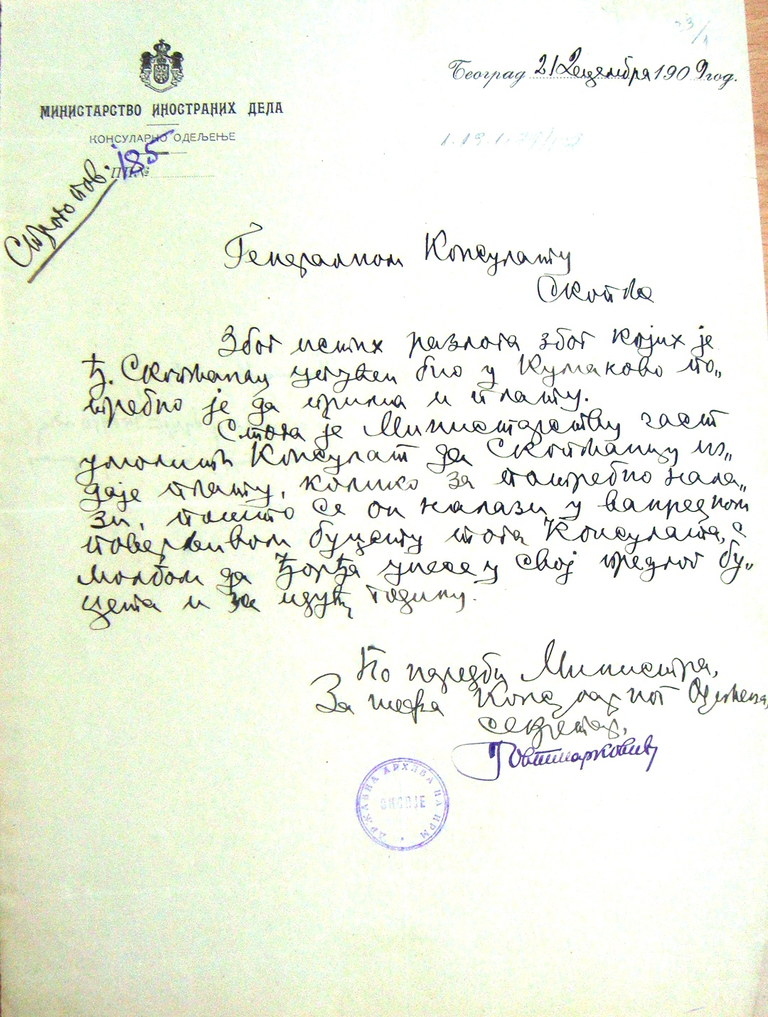 Letter from Belgrade to the Serbian General Consulate in Skopje, with the request to put Đorđe Skopljanče on salary, paid from the budget of the Consulate. (Belgrade, 21 December 1909) This media file is produced by Wikipedian in Residence in Category:Wikipedian in Residence at DARM in 2016.